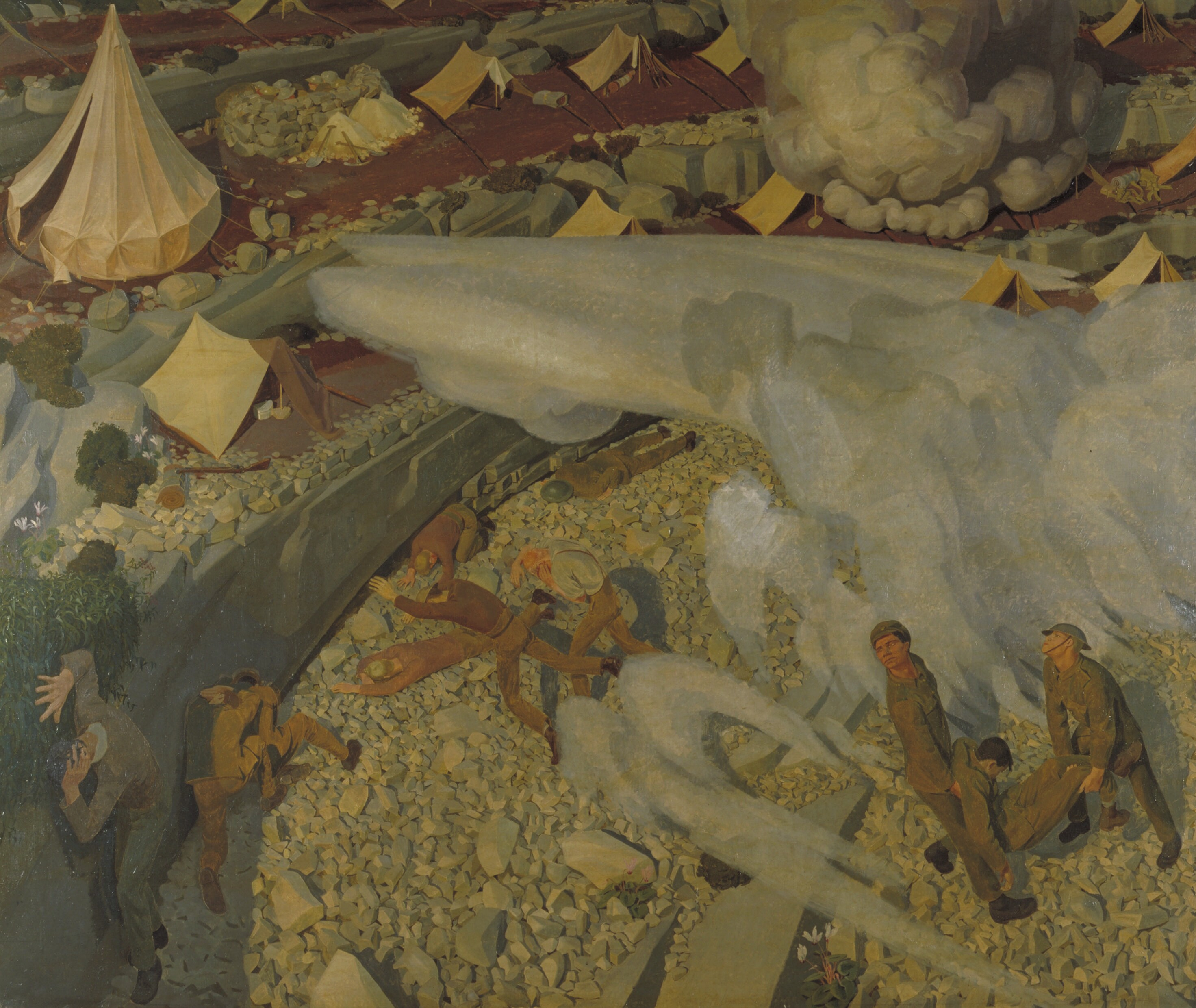 Irish Troops in the Judaean Hills Surprised by a Turkish Bombardment, 1919 image: An elevated viewpoint of a scene showing an encampment under bombardment at an hour before evening 'stand to'. Dense clouds of smoke drift across the scene from exploding shells. Soldiers run and attempt to shelter from the bombardment, while two soldiers carry a wounded soldier in the lower right of the composition.